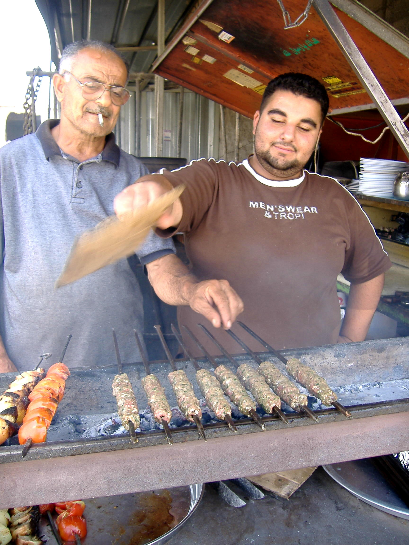 Kebap in Ramallah (West Bank).